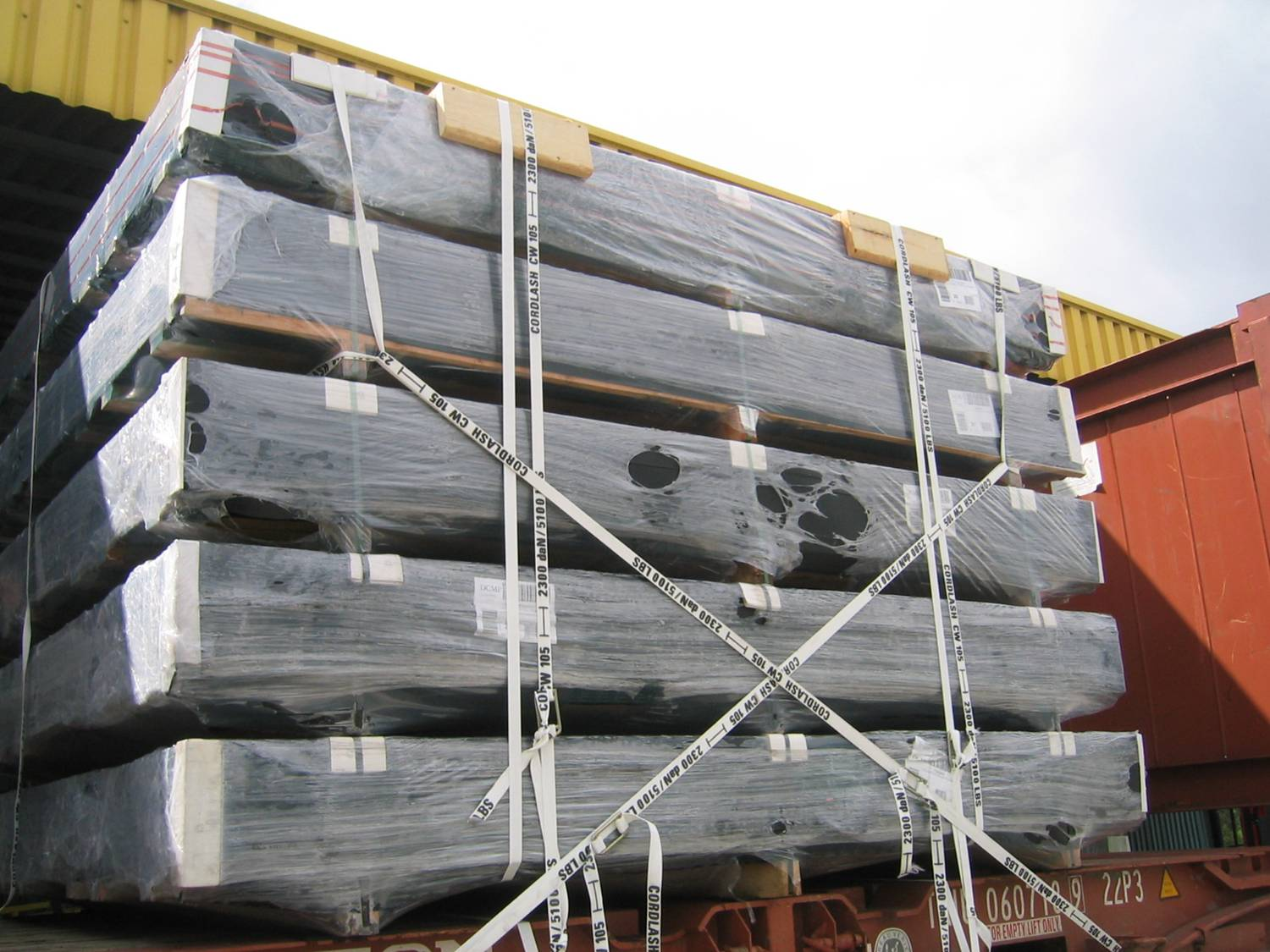 Cordlash Polyester Lashing application